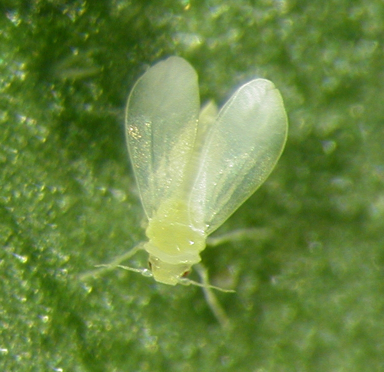 A newly emerged adult silverleaf whitefly, Bemisia tabaci biotype B. It is about 1mm long and attacks over 600 plant species including many vegetables and cotton.